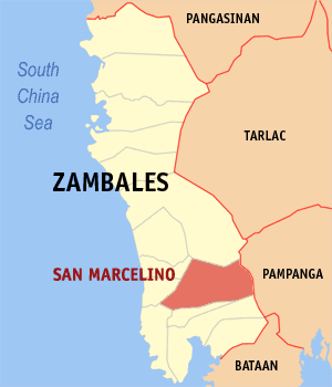 Map of Zambales showing the location of San Marcelino